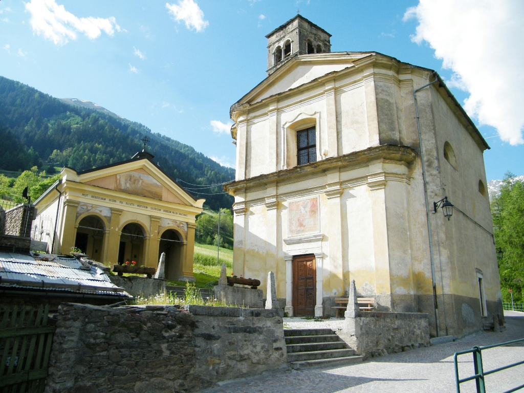 Church of St. John. Zoanno, Ponte di Legno, Val Camonica